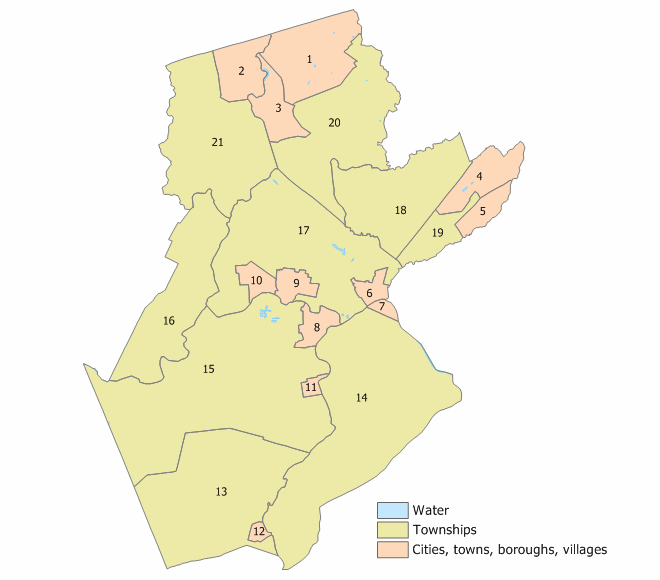 Locator map of places in Somerset County, New Jersey. See also lineage of index maps.